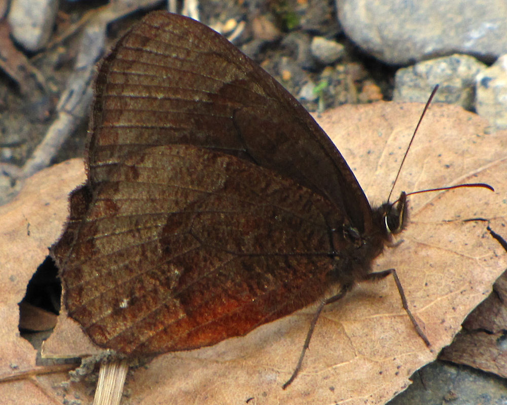 Montagna Mountain Satyr (Pedaliodes montagna), Arvi Park, Medellin, Colombia